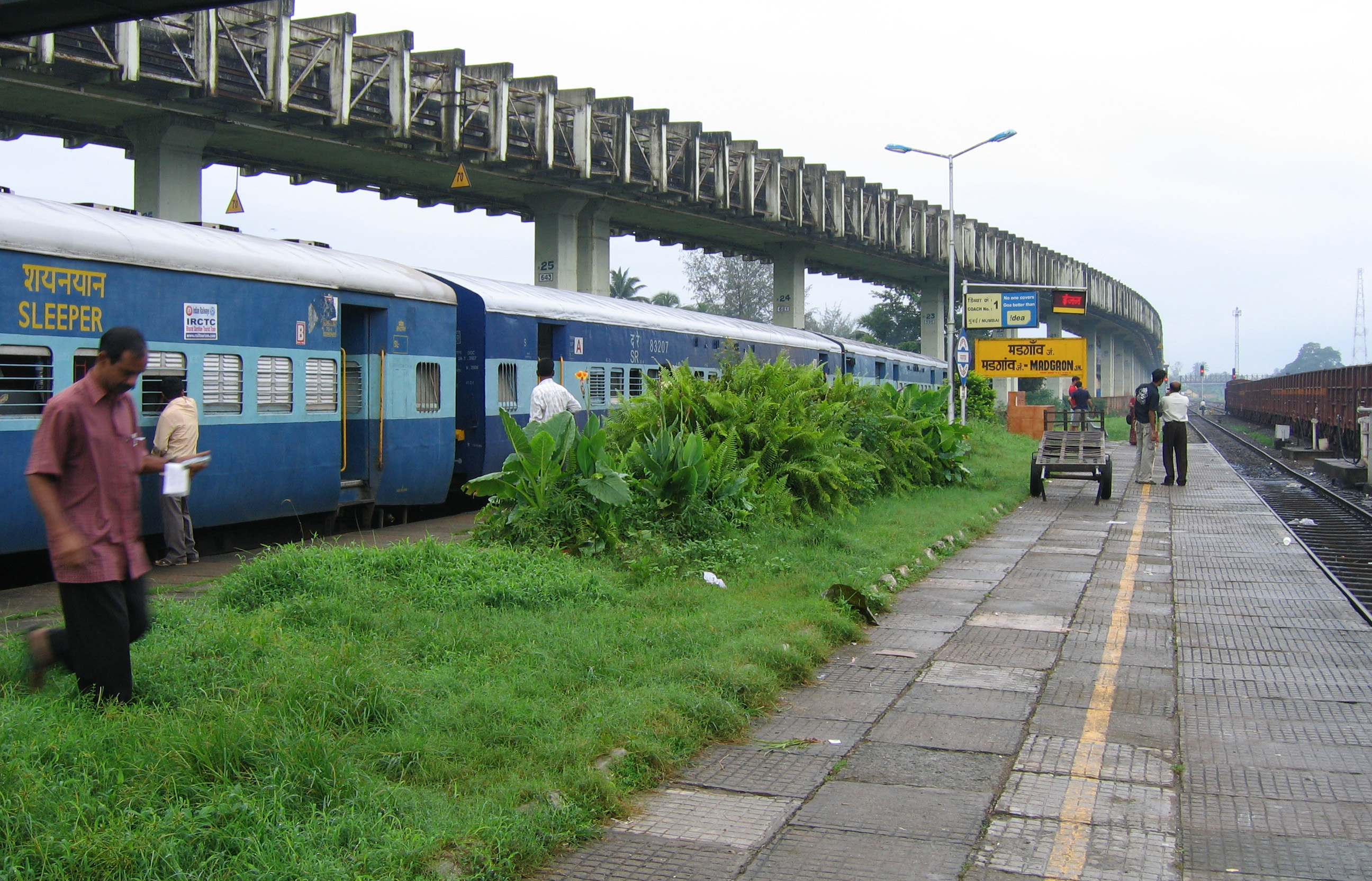 Photos from Goa, in a rainy season with the skies overcast.